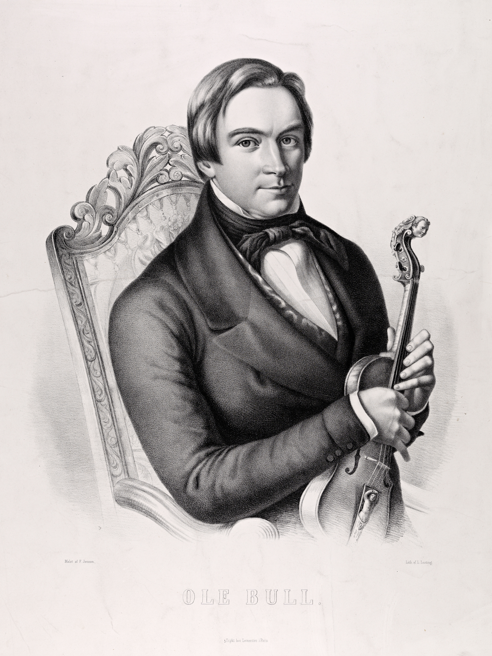 Artist: L. Losting Date/place: unknown Subject: Ole Bull Medium: Lithography Notes: Lithography by L. Losting based on original painting by Fritz Jensen, printed in Paris by Lemercier Persistent URL: NA Title number: NA Original reference: blds_03491 Original found at [#// The National Library of Norway], digital reproduction by their picture collection.